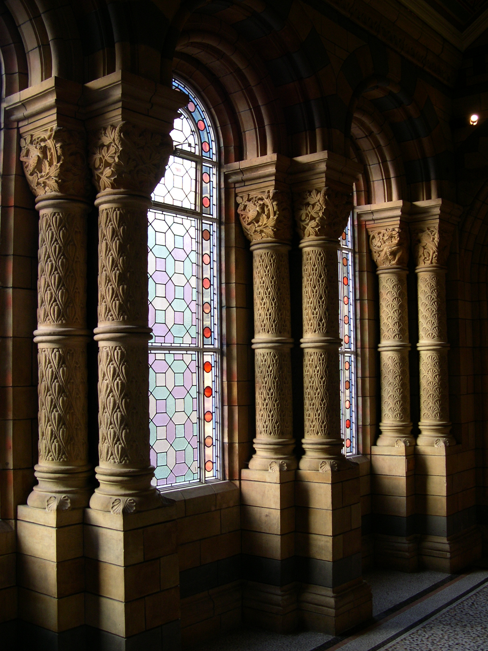 Stained glass windows in the Museum of Natural History, London. The author of this picture has wrongly identified the location, both in its title and in this description. That it is in fact in the Natural History Museum is demonstration by the ornate columns which are patterned like the trunks of palm trees, cicads and tree ferns, and have small animals carved in the capitals.Windows